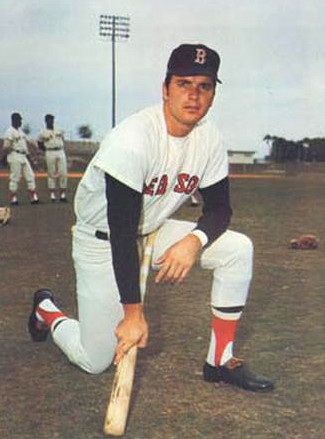 Professional baseball player Tony Conigliaro